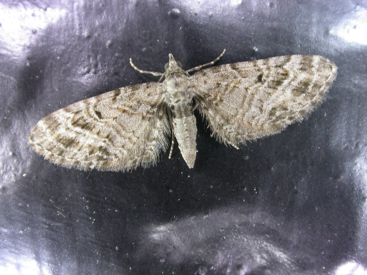 Eupithecia dodoneata, to MV light, Hellerup, Denmark, 25 May 2003